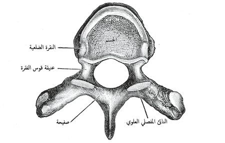 A typical thoracic vertebra, viewed from above.